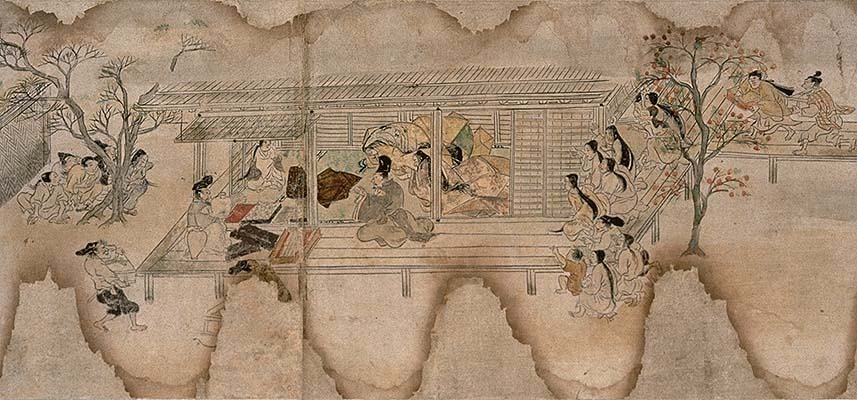 The Legendary Origins of Kokawadera (紙本著色粉河寺縁起, shihon choshoku Kokawadera engi). Handscroll (Emakimono), 30.8 cm、x 1984.2 cm. Color on paper. Located at Kokawadera (粉河寺), Kinokawa, Wakayama.